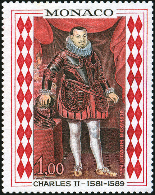 Stamp of Charles II of Monaco